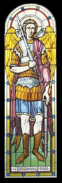 Ioan Cadar SF ARHANGHEL MIHAIL vitraliu religios